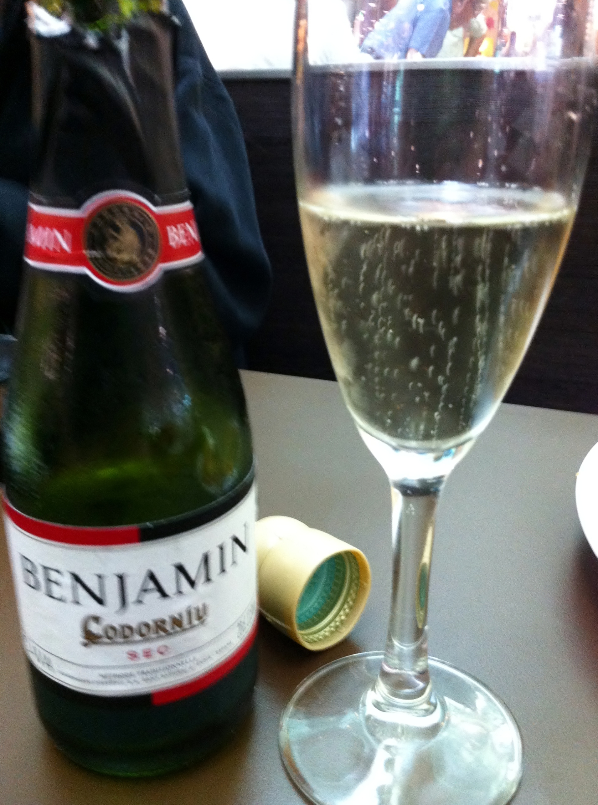 Spanish sparkling wine Cava made by Codorniu packaged in a small 187ml "airline bottle"